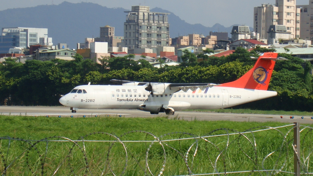 TransAsia Airways ATR72 IN RCSS